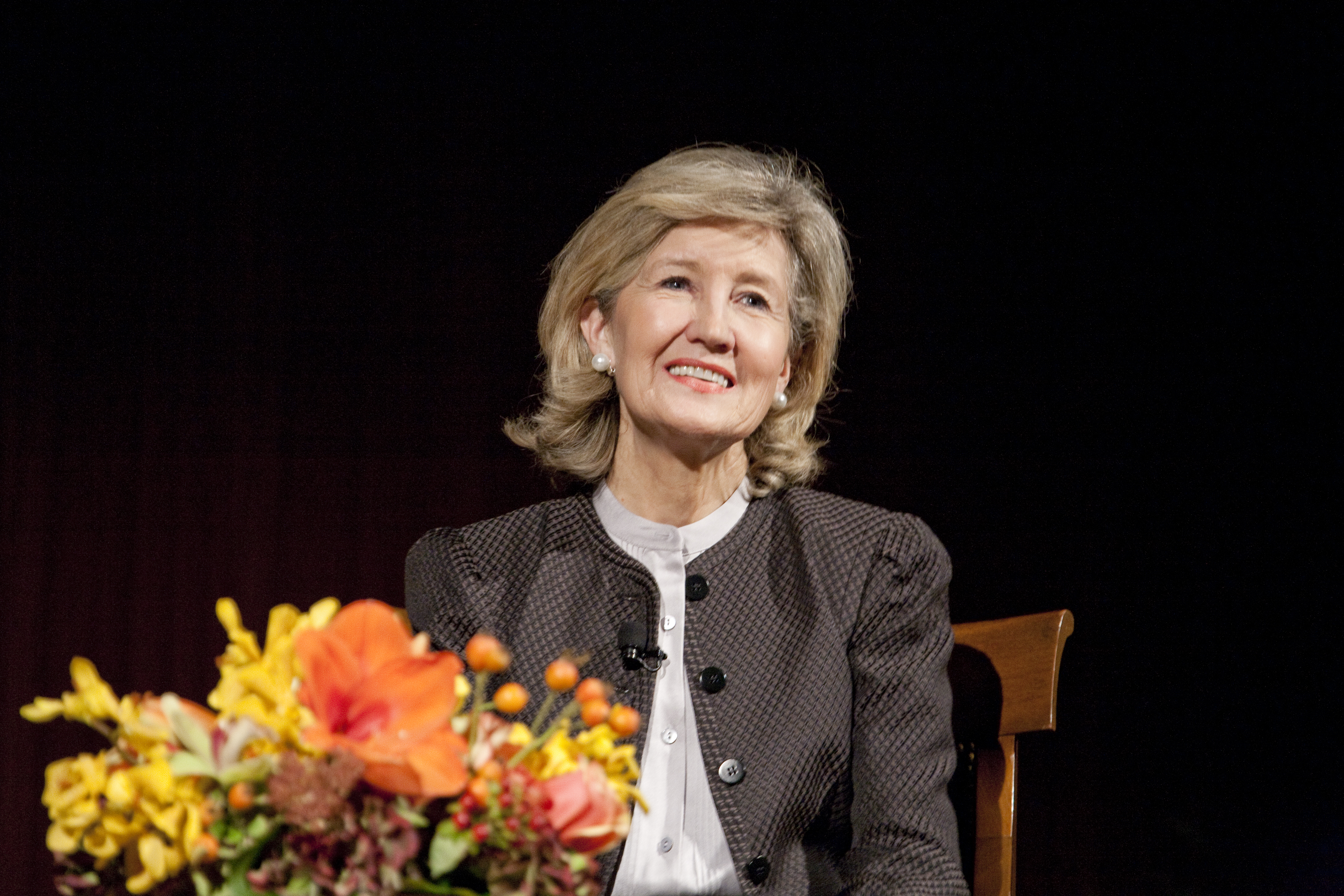 On October 15, U.S. Senator Kay Bailey Hutchison sat down with Evan Smith, CEO and Editor in Chief of The Texas Tribune, to discuss her long legislative career, the 2012 elections, and the future of Texas. Senator Hutchison will end her nineteen year tenure in the Senate at the end of this year. LBJ Library photo by Lauren Gerson.